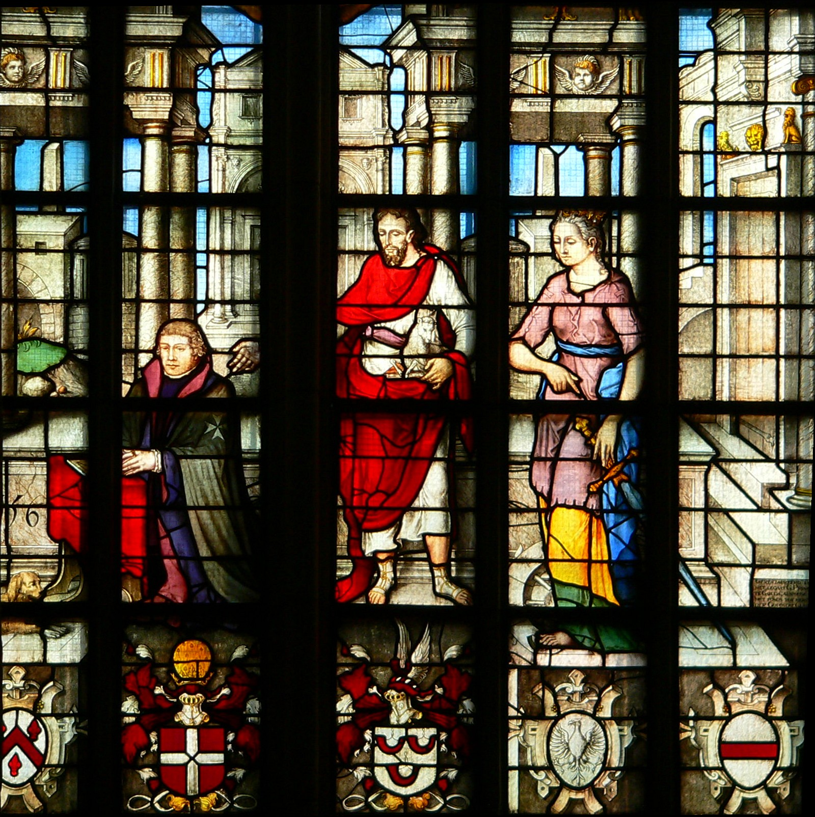 The stained-glass window number 17 (detail) in the Sint Janskerk at Gouda/Netherlands: "John the Baptist rebukes Herod"